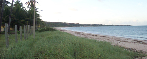 Pitimbue Beach